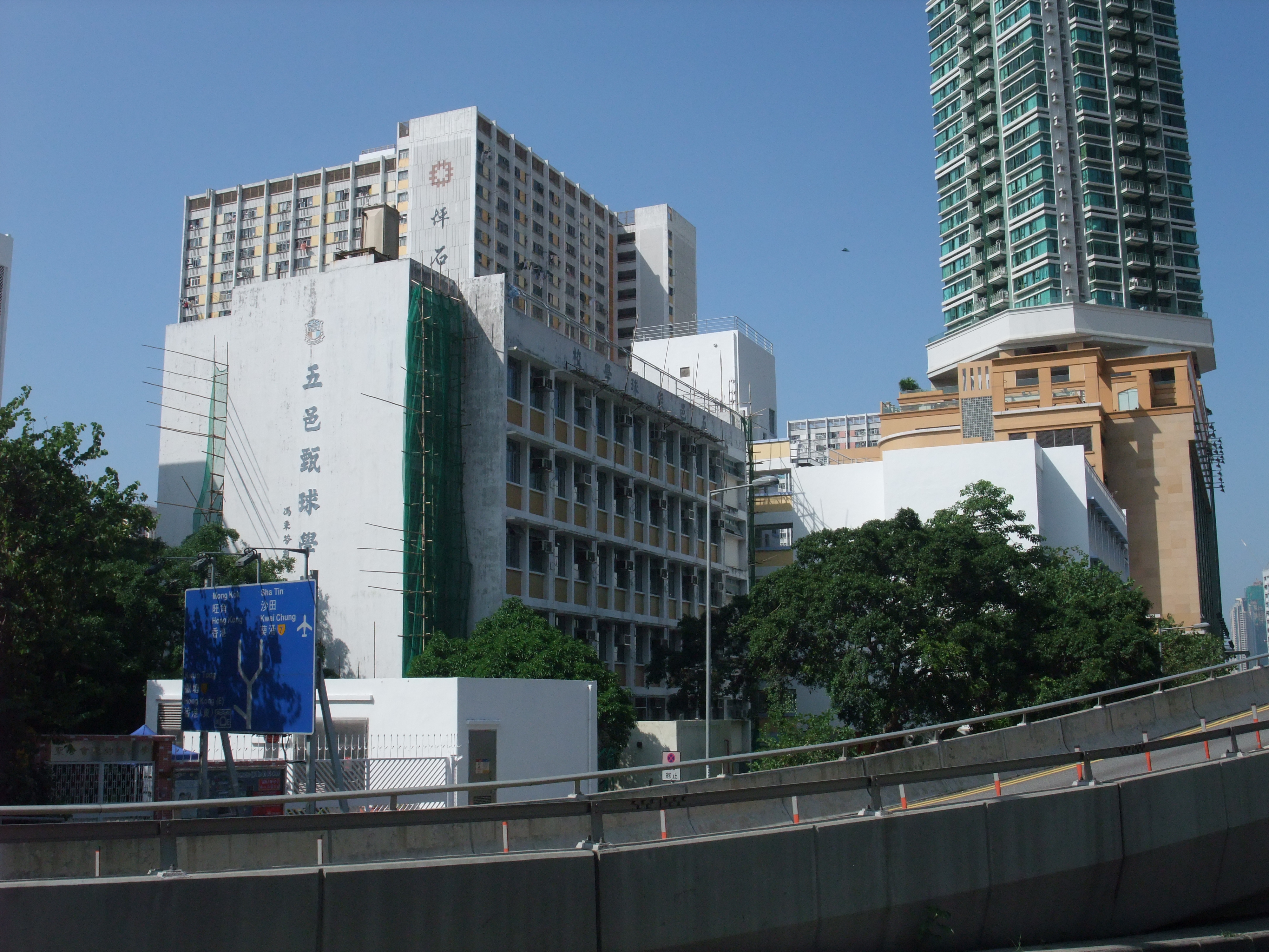 Photo of F.D.B.W.A. Yan Kow School